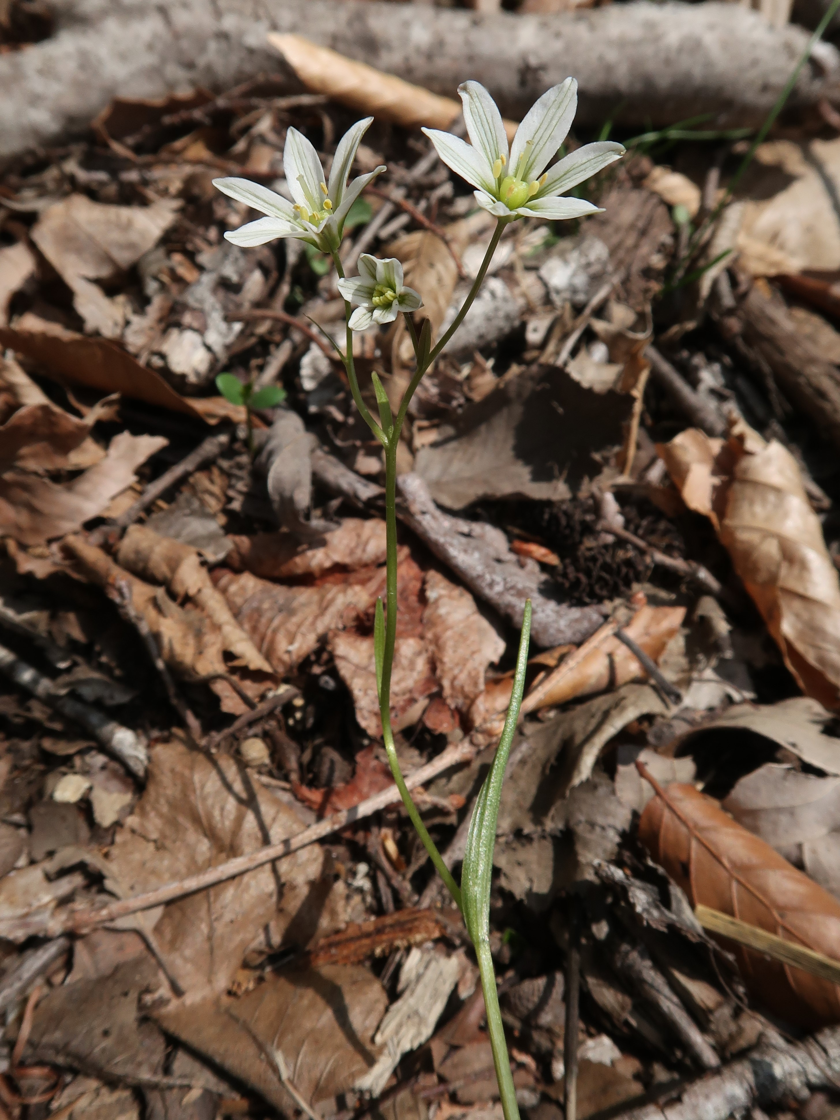 Lloydia triflora, north area, Tochigi pref., Japan